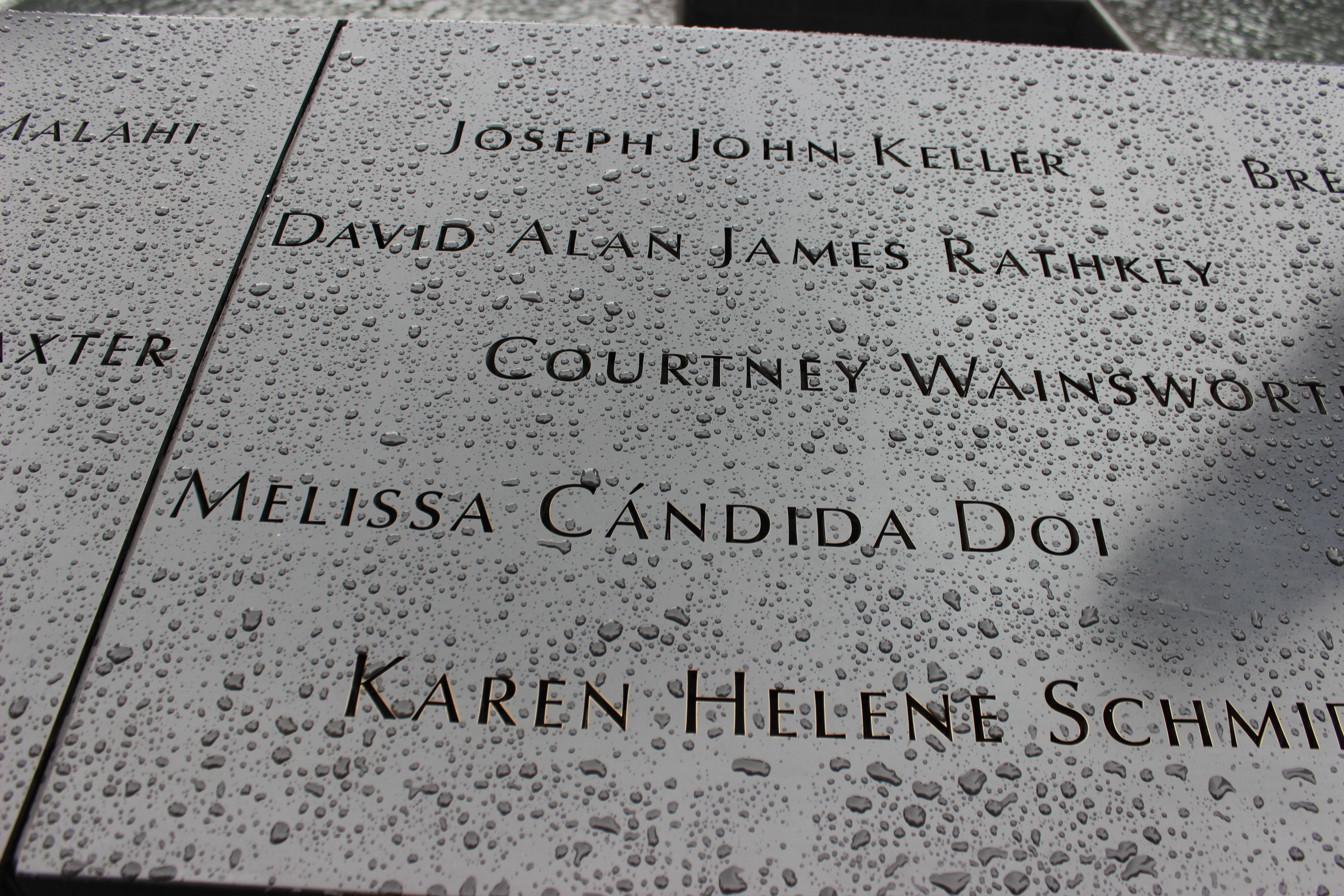 Name of Melissa Doi at 9-11 Memorial New York